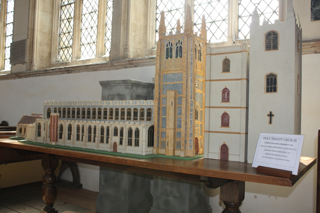 Scale model of the Holy Trinity Church, Long Melford, showing the current bell tower and its two predecessors